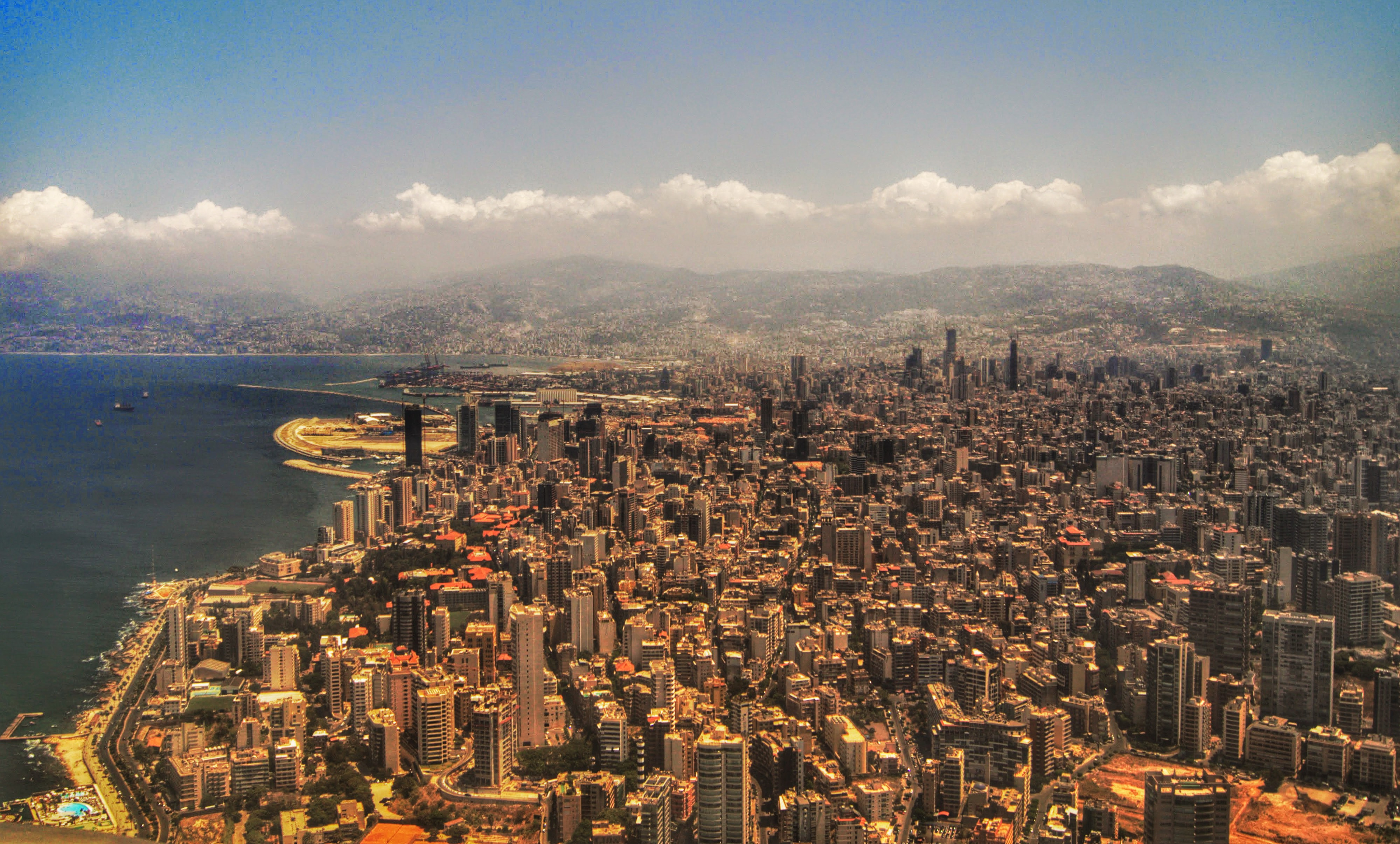 Beirut, the beloved, from airplane window